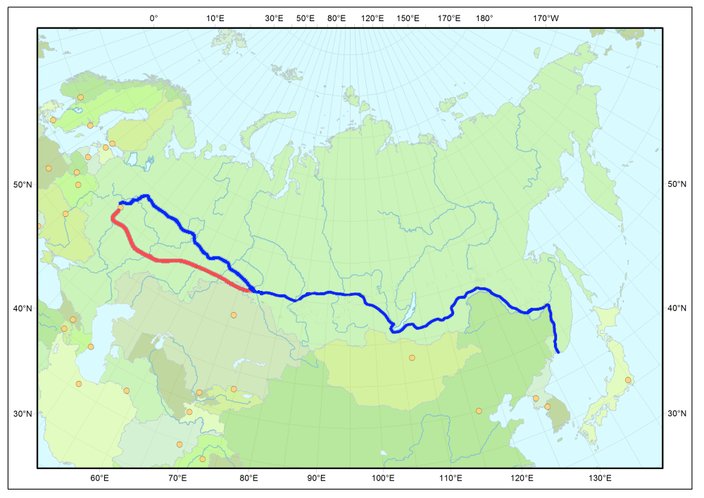 Trans Siberian Rly; blue line as used today, red: original line